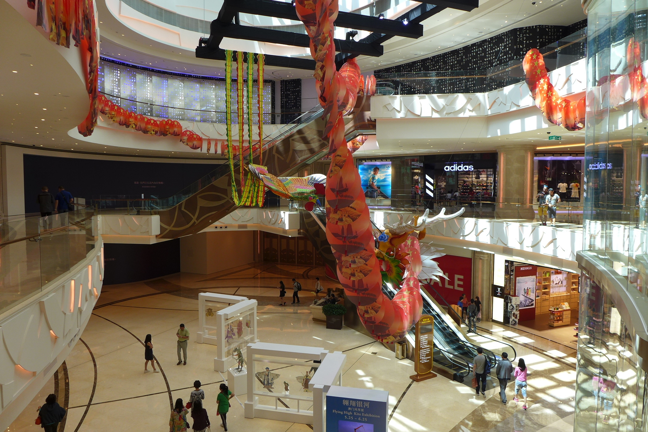 Galaxy Macau The Promenade Shops Pearl Lobby